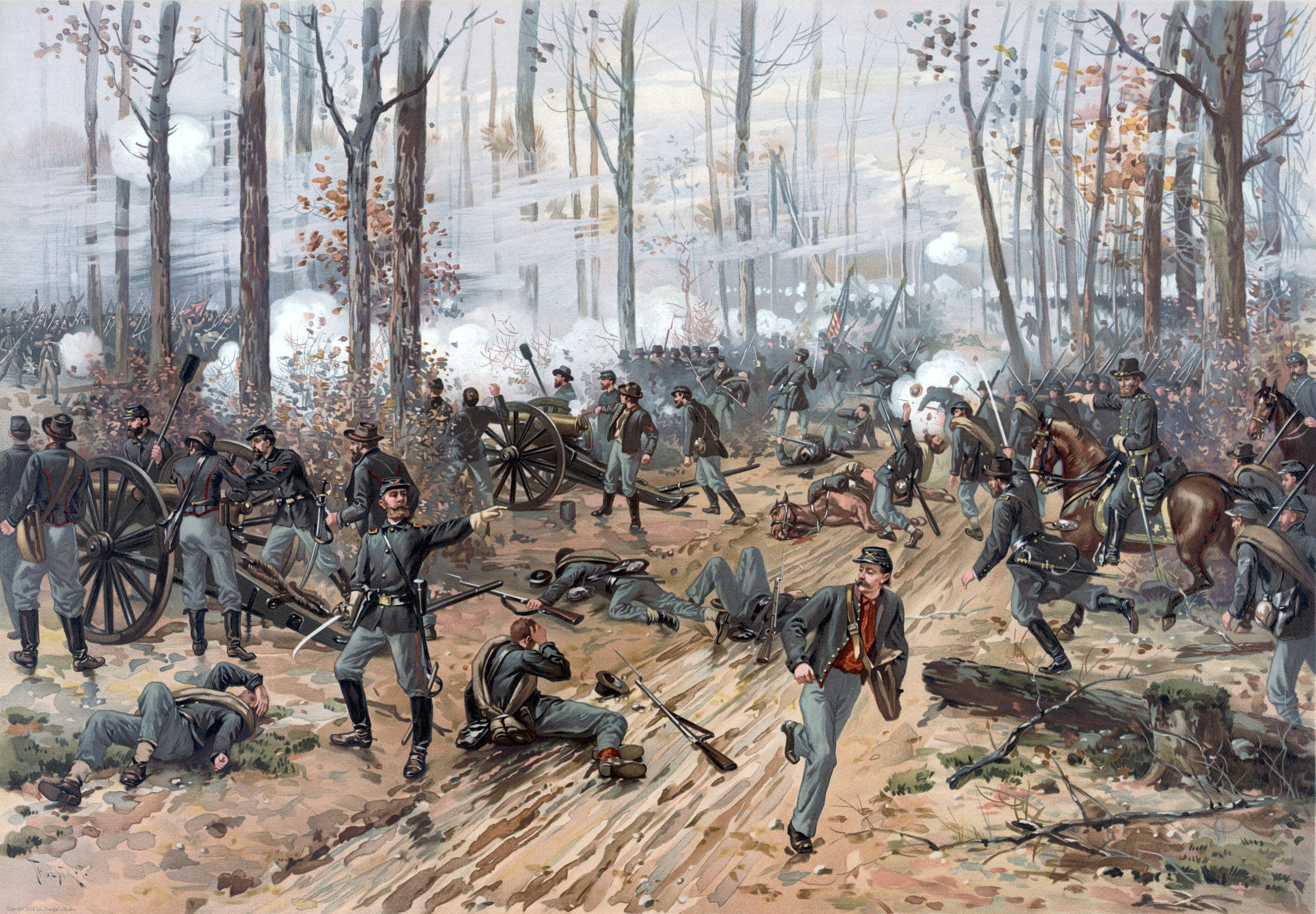 American Civil War, produced by L. Prang & Co.